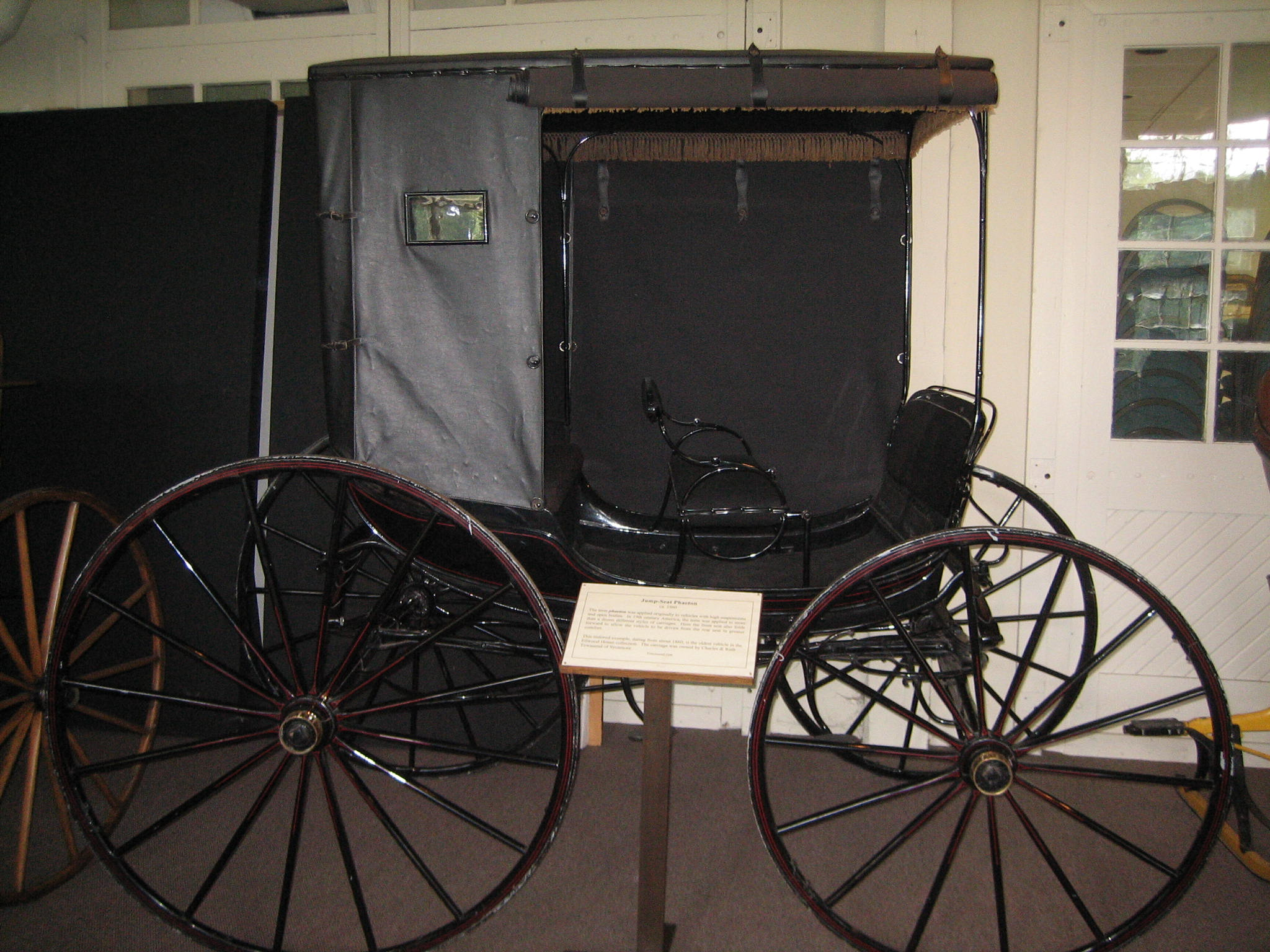 A Jump-Seat, Phaeton type carriage, circa 1860. At the Ellwood House Visitor Center in DeKalb, Illinois.